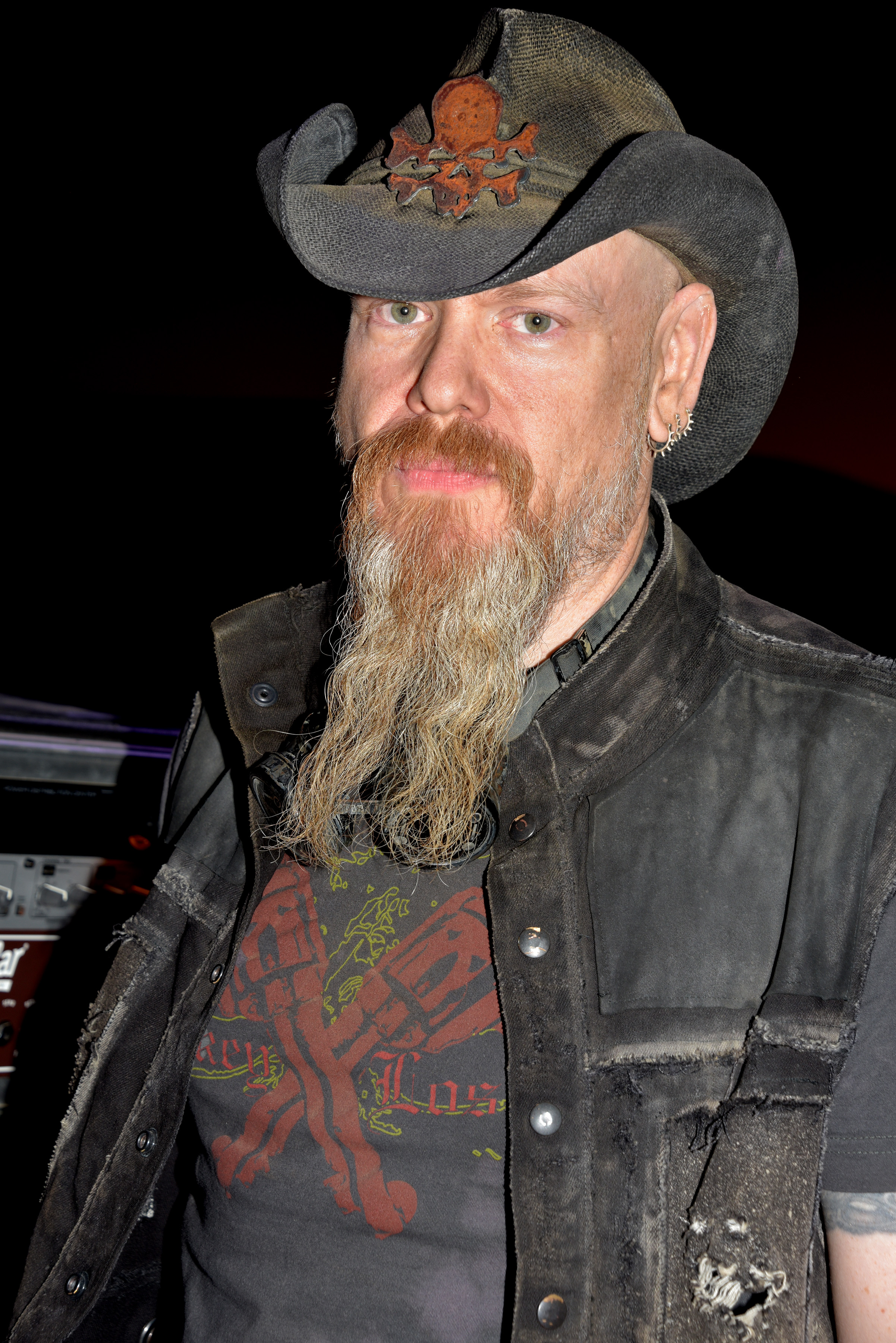 Jason Charles Miller at Wasteland Weekend on September 30, 2017 - Photo by Glenn Francis of